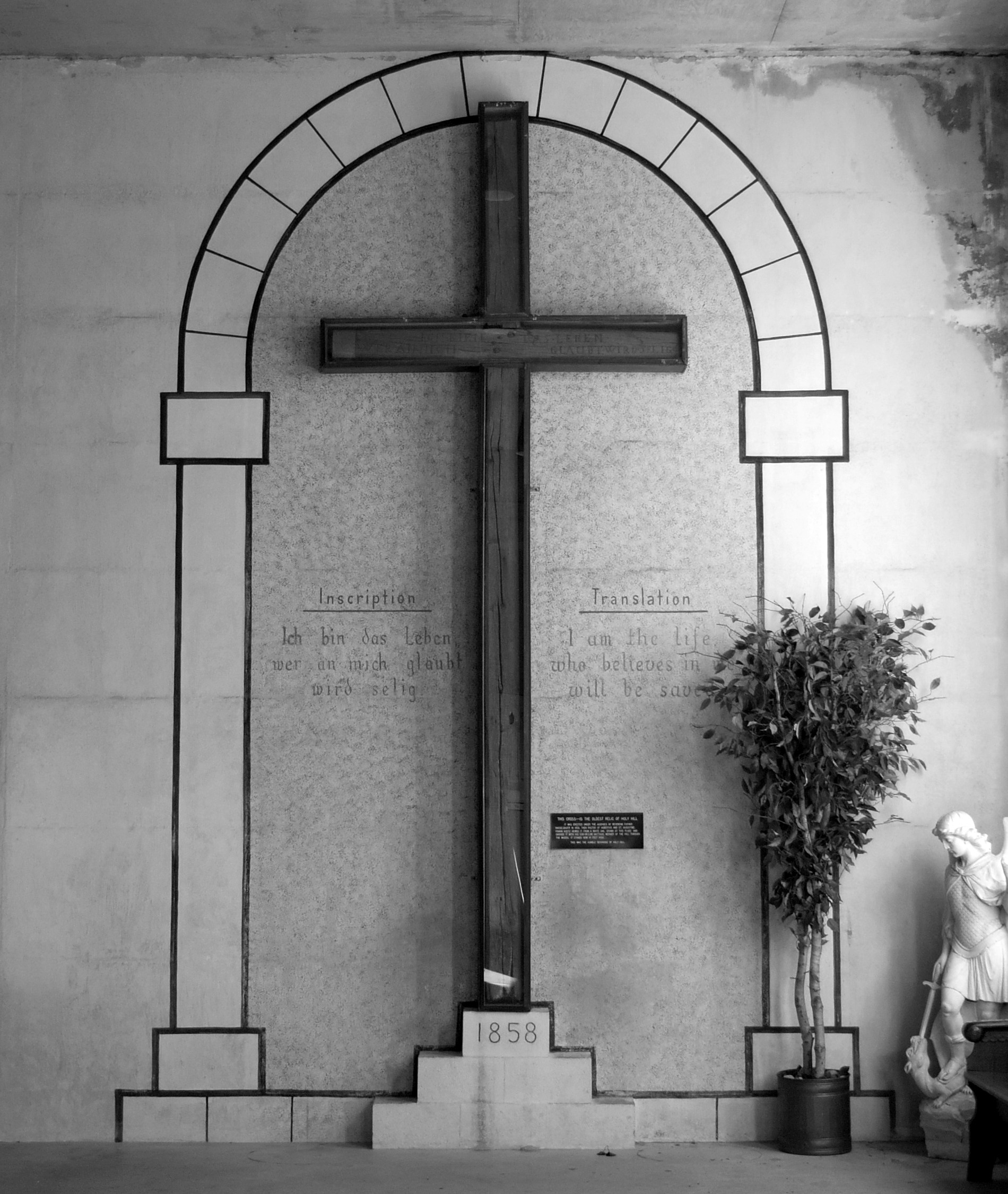 Holy Hill National Shrine of Mary, Help of Christians, Erin, Wisconsin